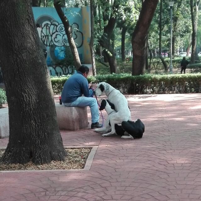 Two dogs resting at Parque México (Condesa neighborhood, Cuauhtémoc borough, Mexico City).